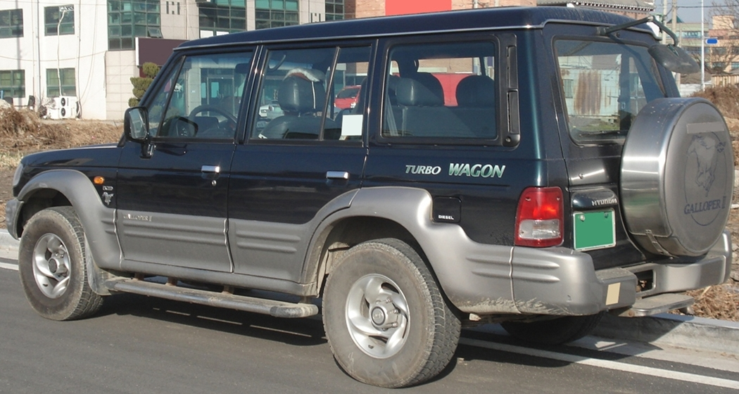 Hyundai Galloper Ⅱ